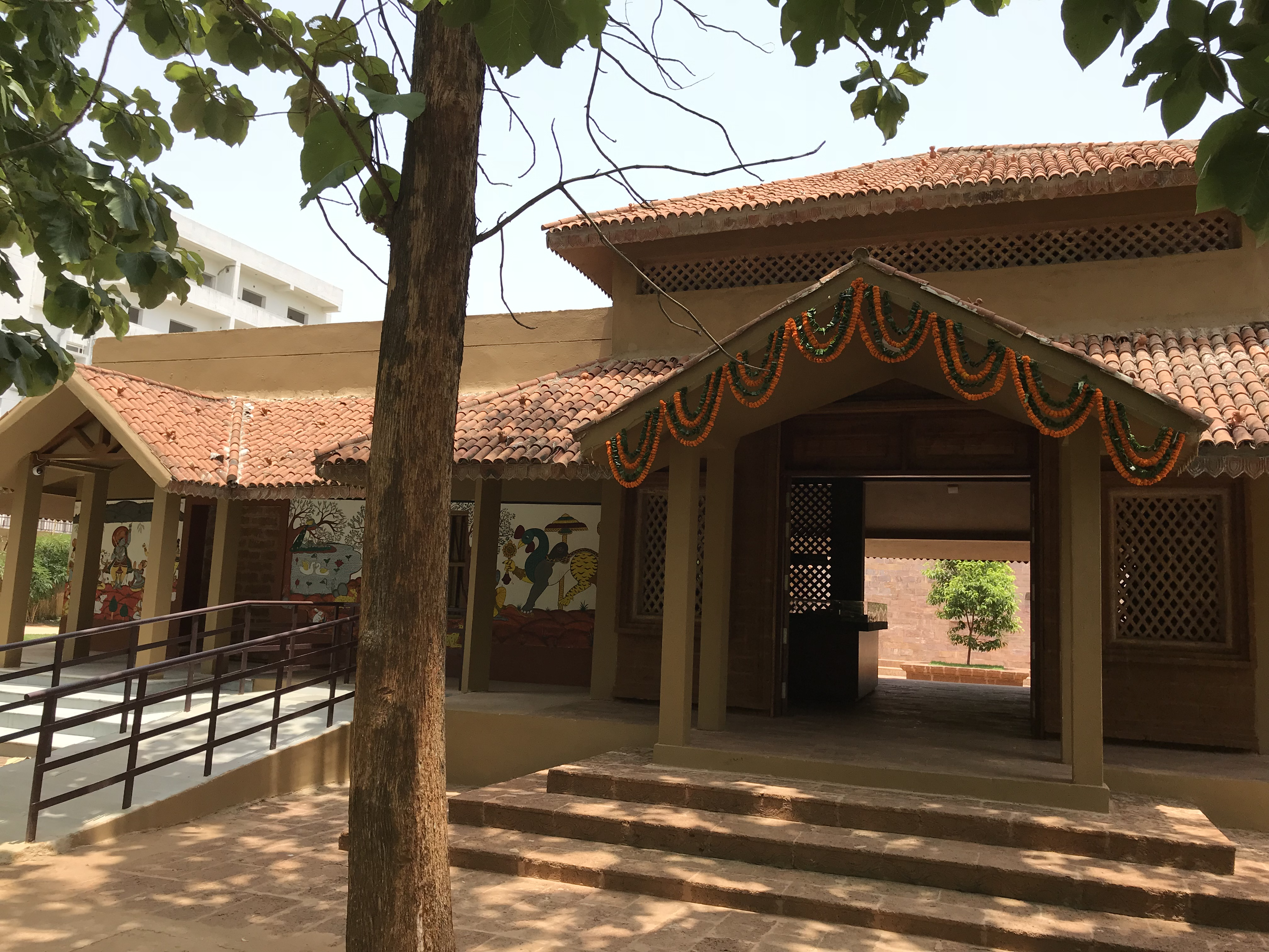 Images from Craft Museum